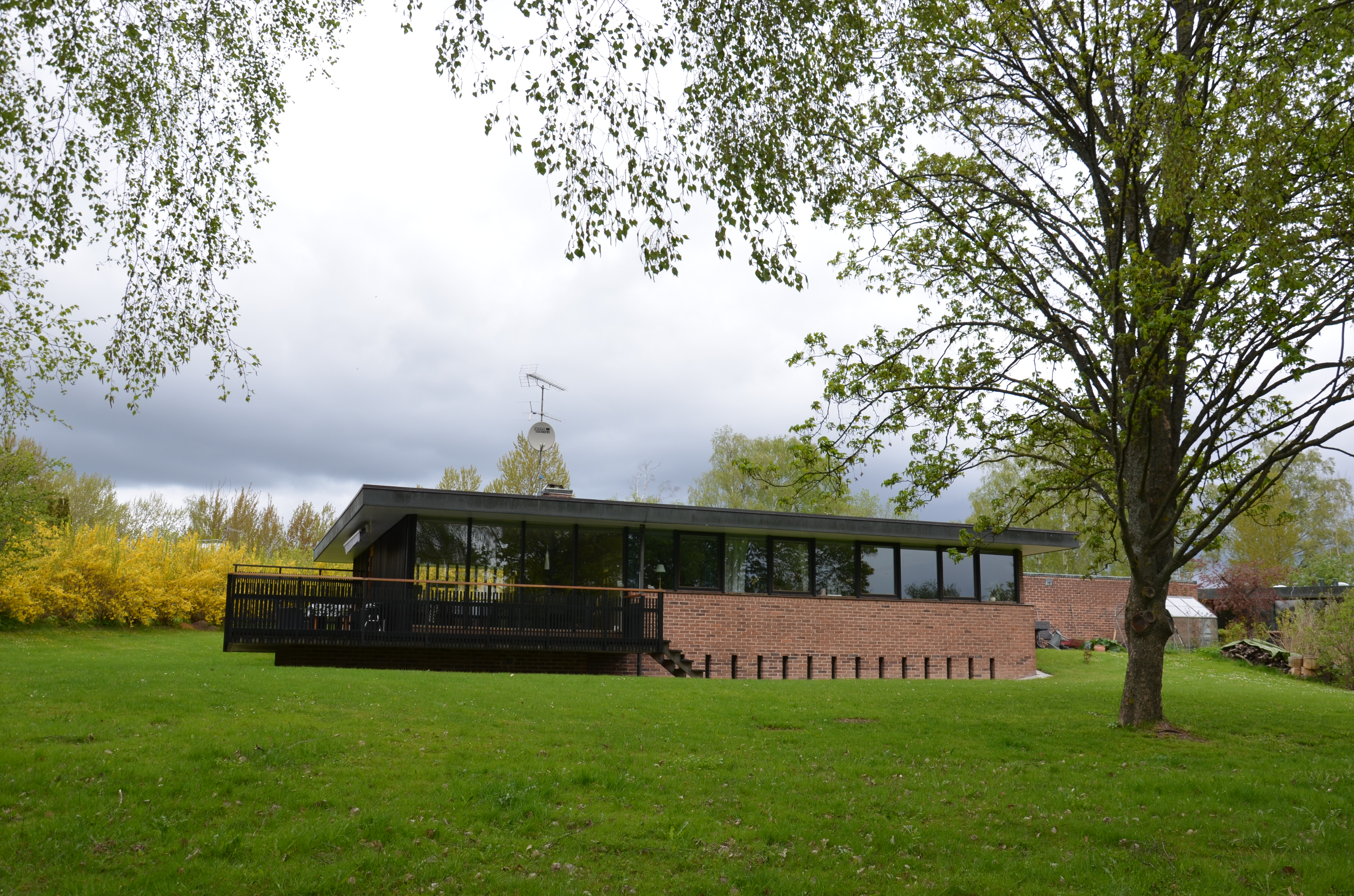 NU64 house, Nordengatan 7 in Norrköping, drafted by Danish architects Jørgen Bo och Vilhelm Wohlert